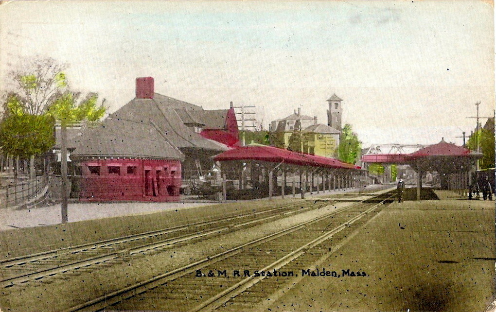 Postcard of the 1892 Pearl Street station in Malden, located near the modern Malden Center station. This view looks north (outbound). The station building is still extant near the modern Malden Center station, but the platforms and shelters are long gone.